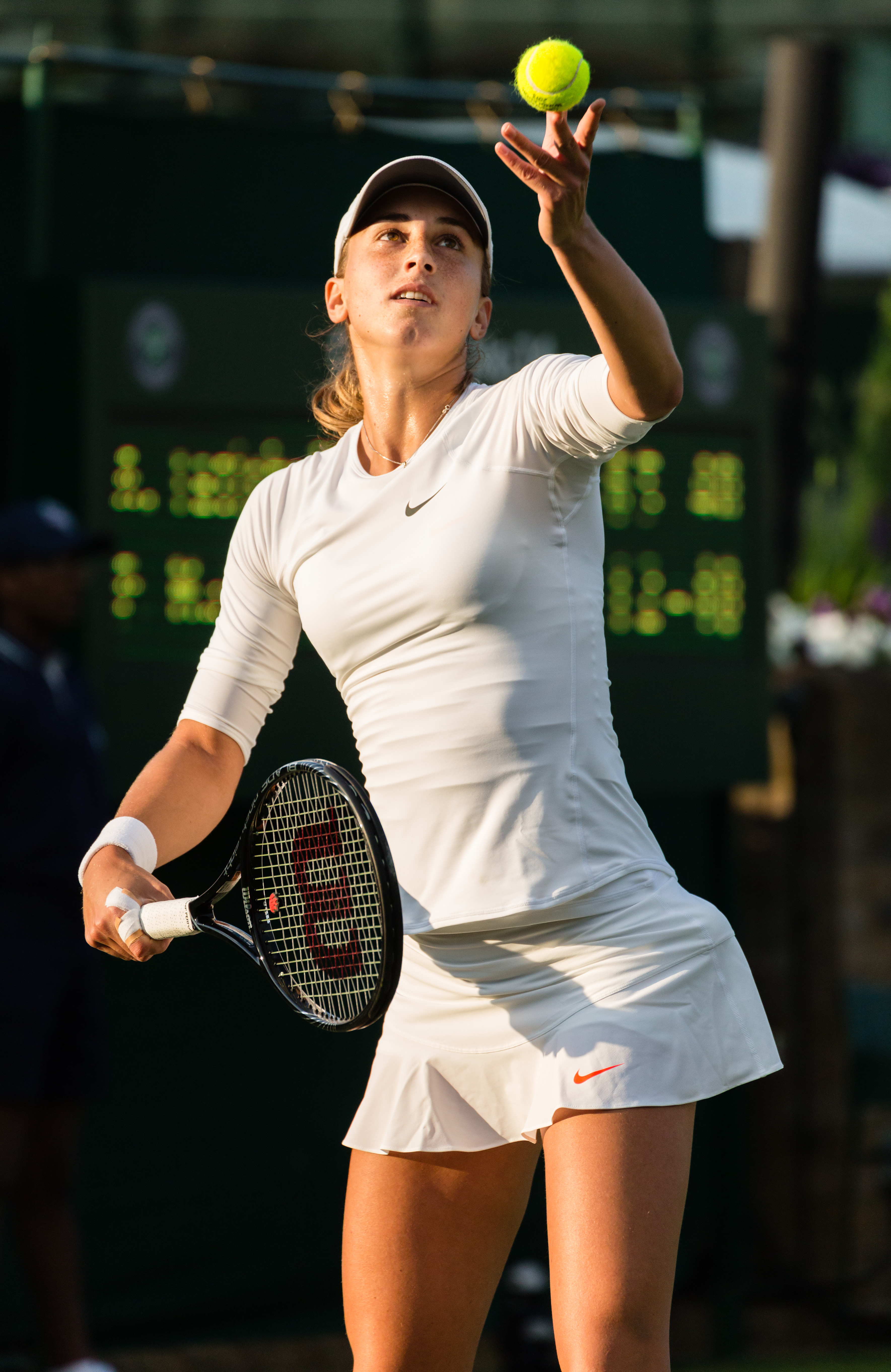 Petra Martic during her first round win against Anna Tatishvili at Wimbledon in 2013.